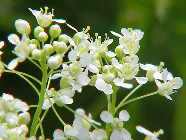 Species: Cardaria draba Family: Brassicaceae Image No. 1